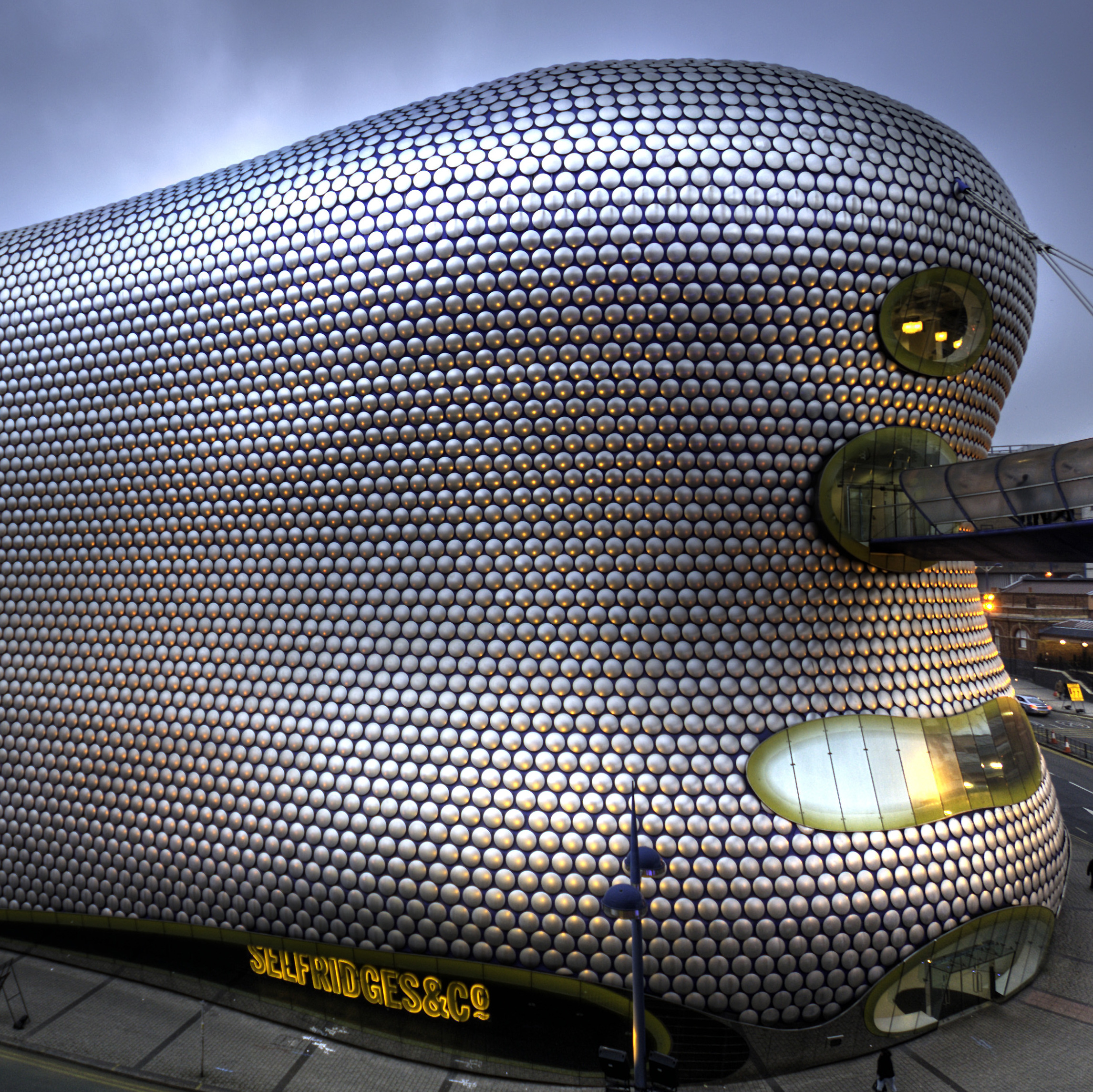 Selfridges Building, Birmingham